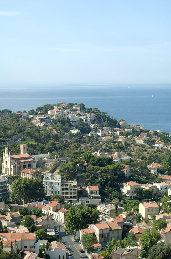 Image of part of the 7th arrondissement (Bompard, Endoume, Roucas Blanc) of Marseille.